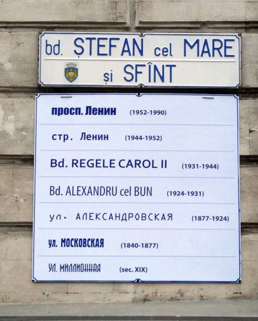 Board with history of names of avenue Ștefan cel Mare și Sfînt from Chișinău (The upper is the public sign. The lower is the sign informally set up by someone.)